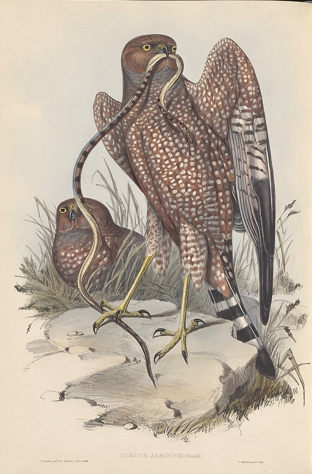 Spotted Harrier (Circus assimilis) colour lithograph by Emily and John Gould, originally titled Circus jardini.